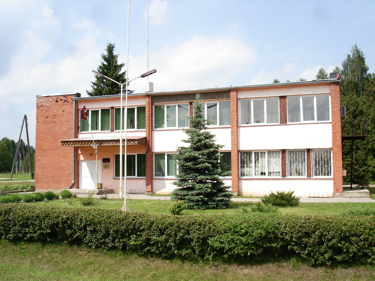 municipality